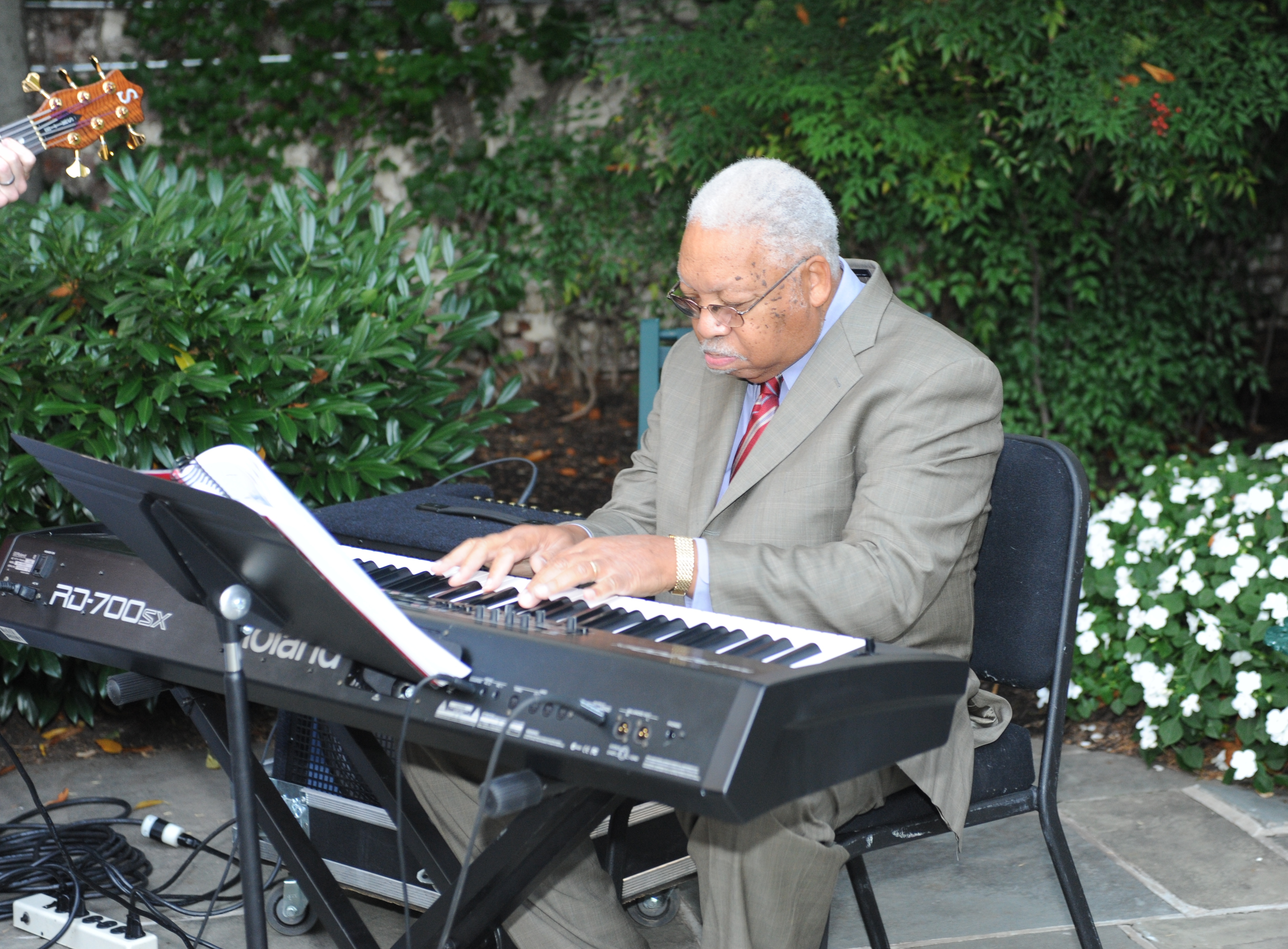 Guest of honor Ellis Marsalis, jazz musician and educator is playing his instrument.